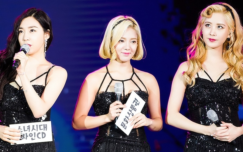 Girls' Generation at MBC Radio DJ Concert on September 6, 2015.